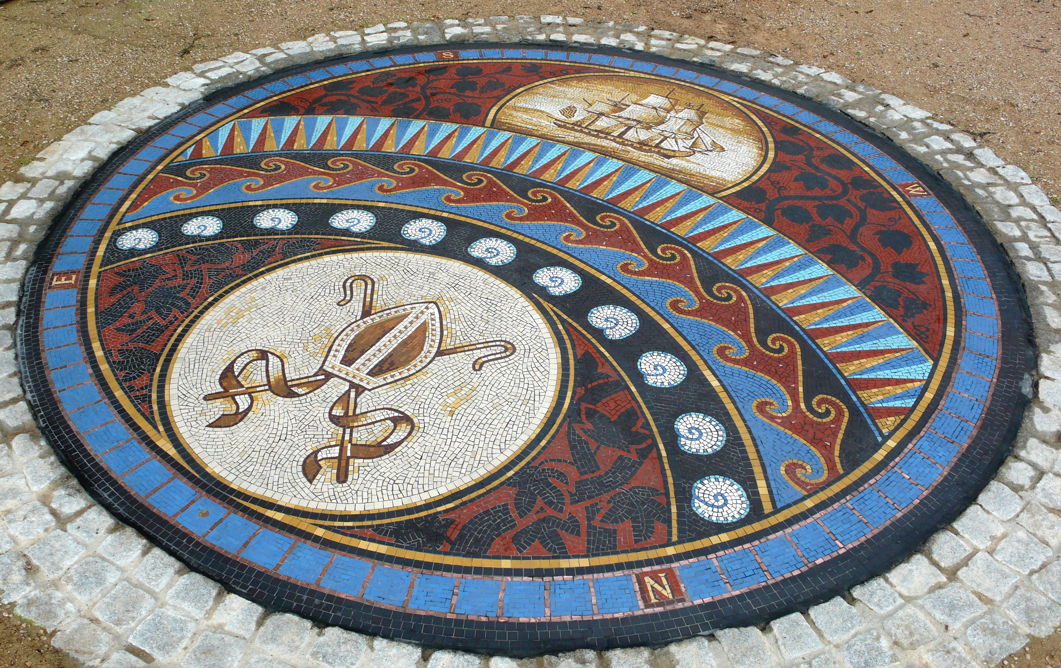 Bishops Walk Mosaic in Valentines Park, Ilford represents some of the history of the park. Designed and made by artist Gary Drostle.